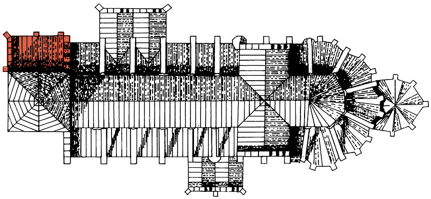 Drawing of St. Peter church, Malmo, Sweden.